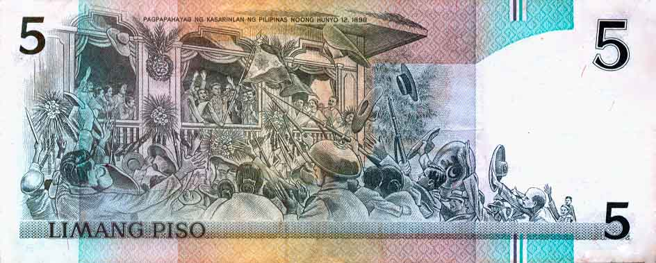 Back side of the 5-Philippine peso bill.